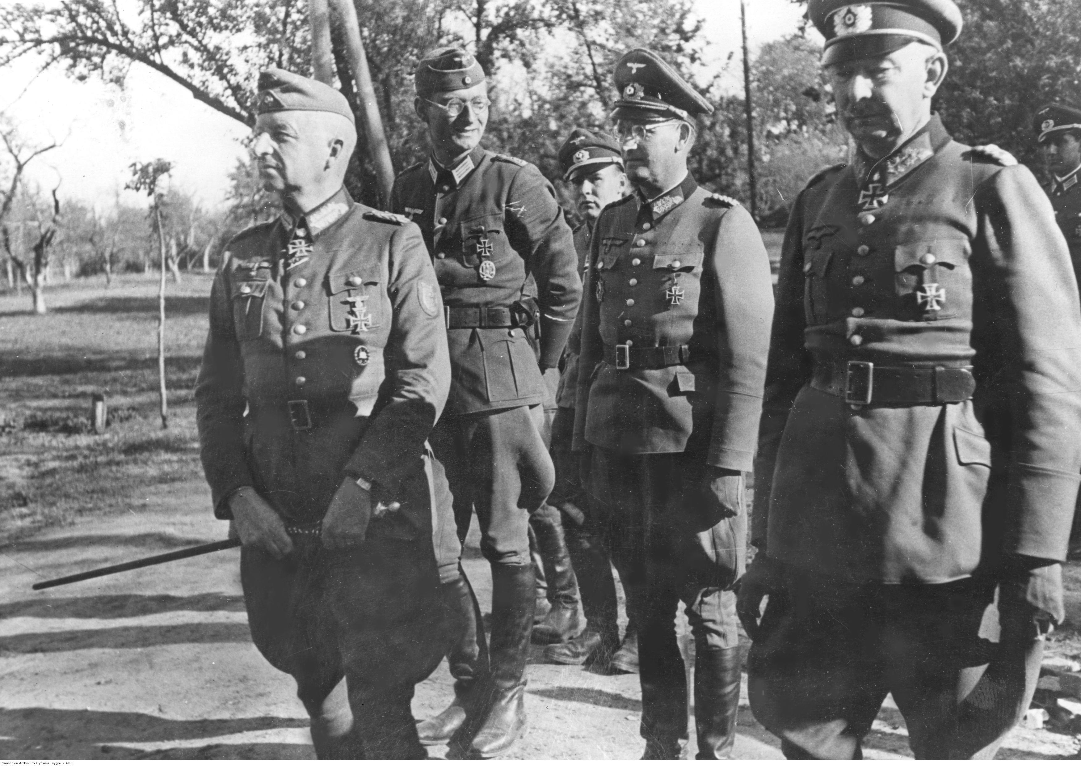 Marshal Erich von Manstein (1st from left) surrounded by officers, including gen. Werner Kempf (1st on the right) during the inspection of the unit on the Eastern Front.